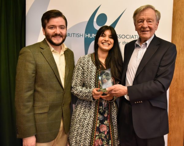 Alf Dubs (right) pictured alongside Andrew Copson (left) and Pavan Dhaliwal (middle) as he is awarded Humanist of the Year by Humanists UK (then known as the British Humanist Association) in London in 2016